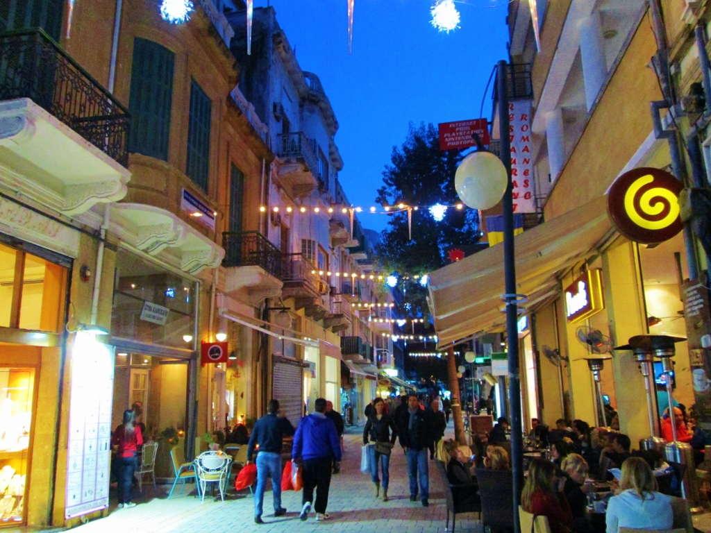 Fascinating Ledra Street with Cypriot French and Greek cafes by night Republic of Cyprus